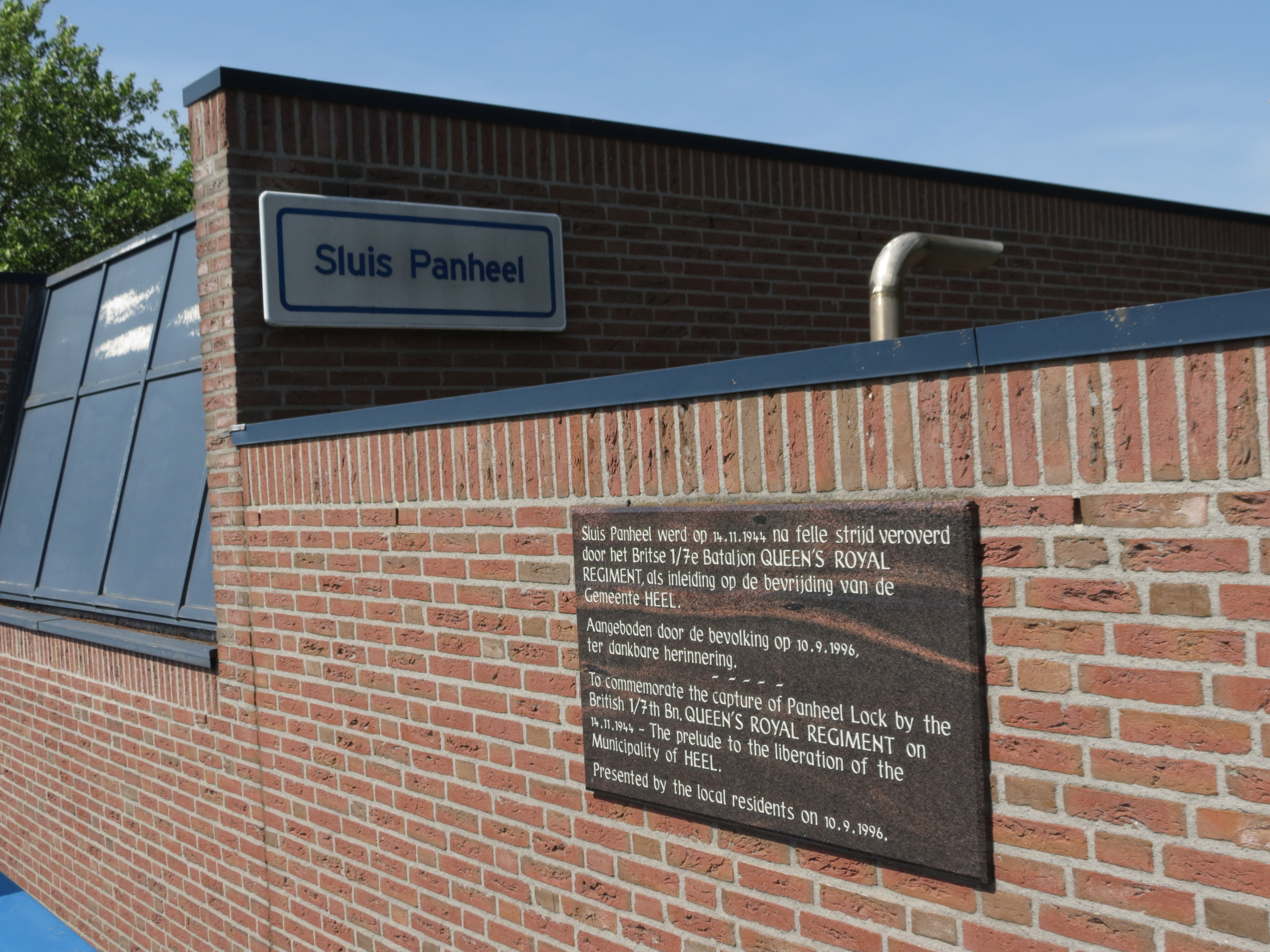 Commemorative plaque liberation WWII, Panheel Lock, Limburg, Netherlands